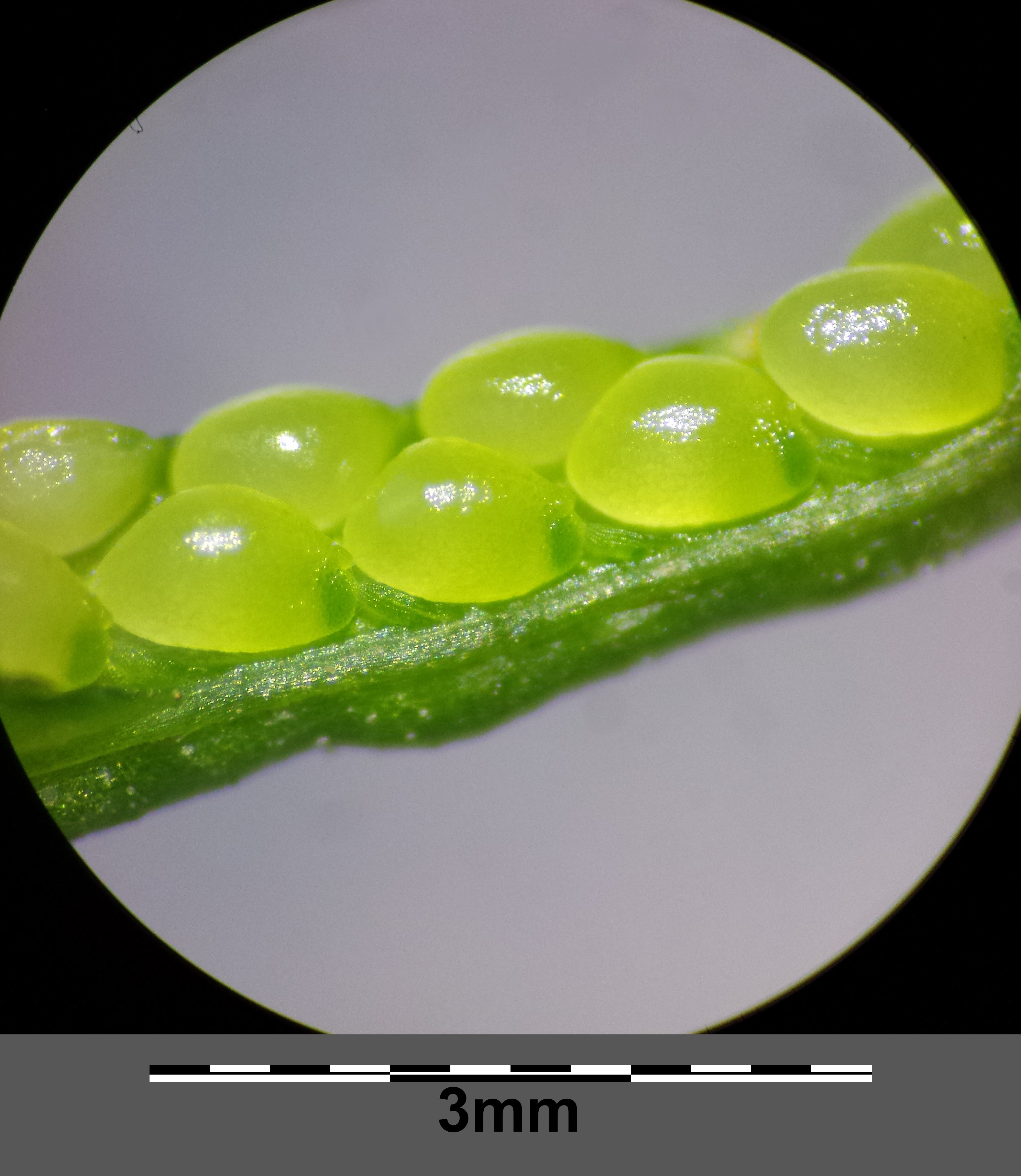 Opened silique, seeds in 2 distinct rows Taxonym: Nasturtium officinale ss Fischer et al. EfÖLS 2008 ISBN 978-3-85474-187-9 Location: Senningbach next to Hatzenbach, district Korneuburg, Lower Austria - 180 m a.s.l. Habitat: stream